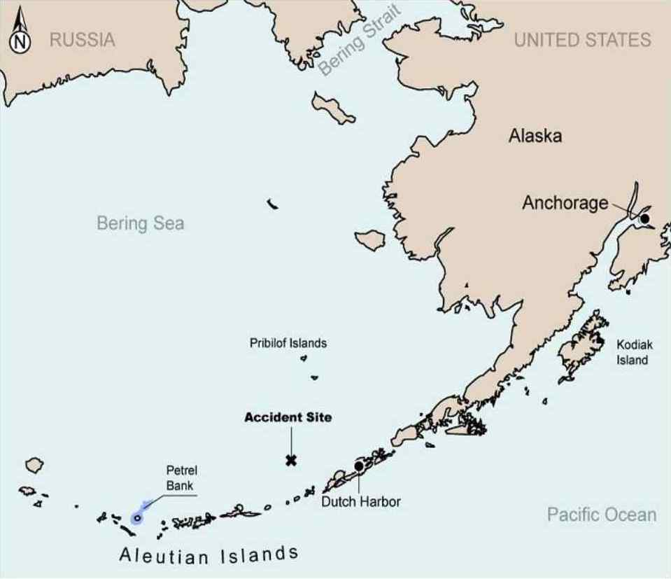 Map showing the site of FV Alaska Ranger sinking